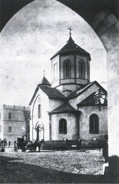 St Nicolas church in Baku, XIX century